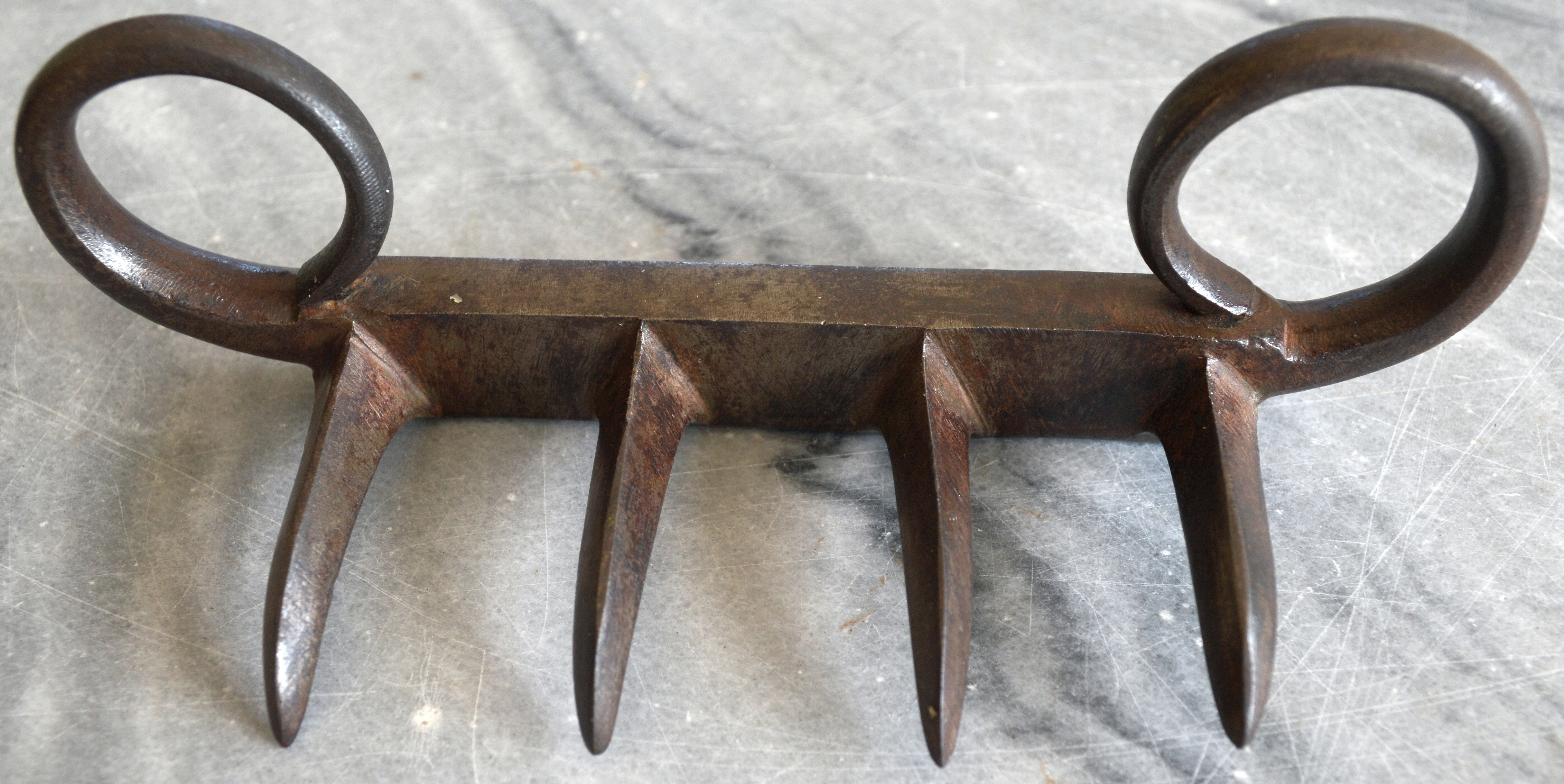 Indian bagh nakh (Marathi: वाघनख / वाघनख्या, Hindi: बाघ नख, Urdu: باگھ نکھ), wagh nakh (“tiger claws”), 18th to 19th century, a claw like weapon designed to fit over the knuckles or concealed under and against the palm. It usually consists of four or five curved blades affixed to a crossbar or glove, and is designed to slash through skin and muscle, made from one piece of solid steel with four thick triangular claws, 5.25 in. long with 1.5 in. long claws.